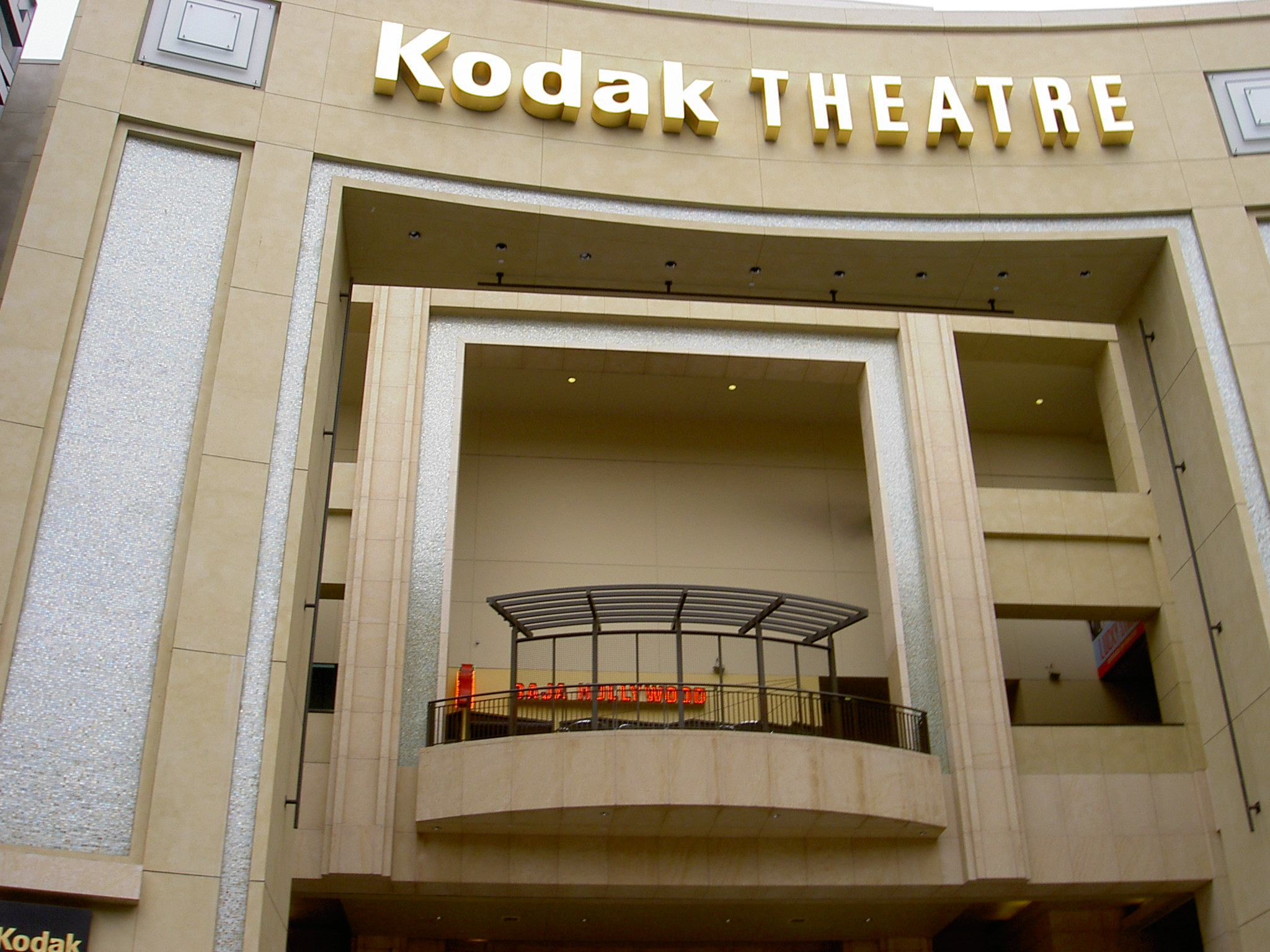 Kodak Theatre in L.A., California.